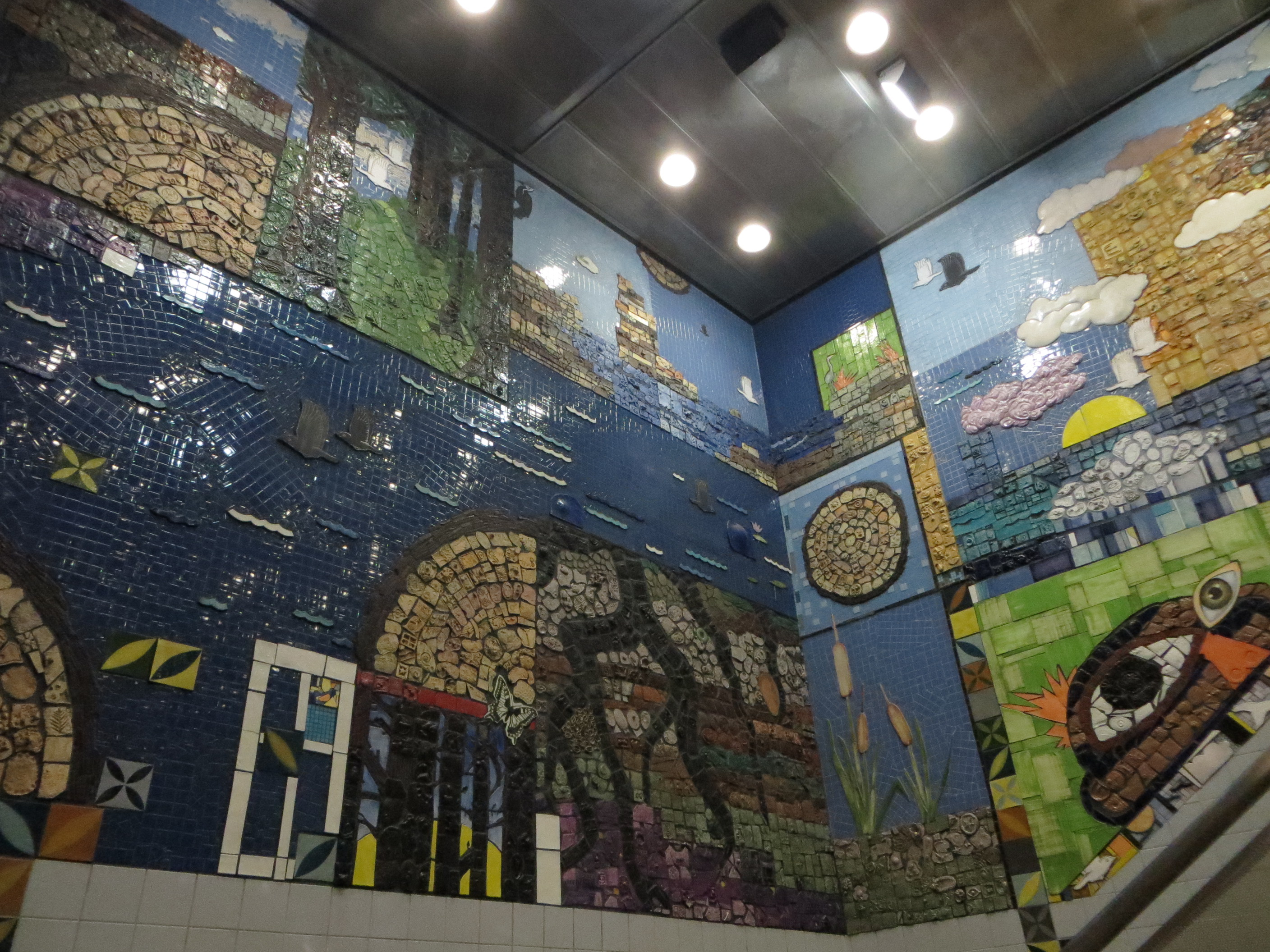 20131021 14 CTA Roosevelt L station